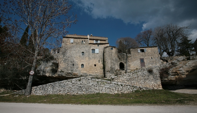 The village of Sivergues, Vaucluse, France